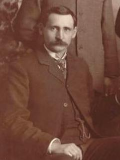 Photo of Joseph M. Tanner, an American educator and a leader in The Church of Jesus Christ of Latter-day Saints (LDS Church).